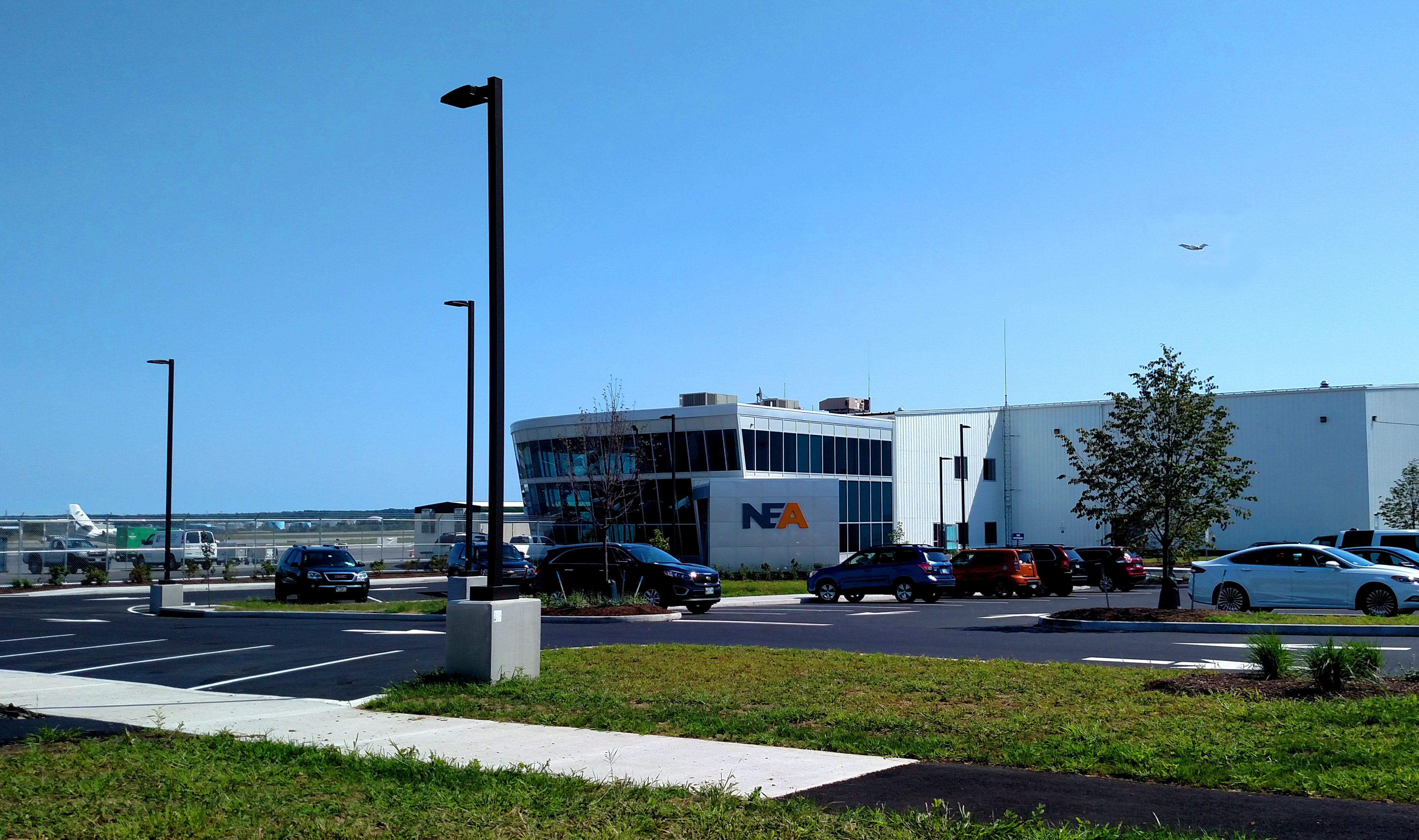 new terminal for corporate jets